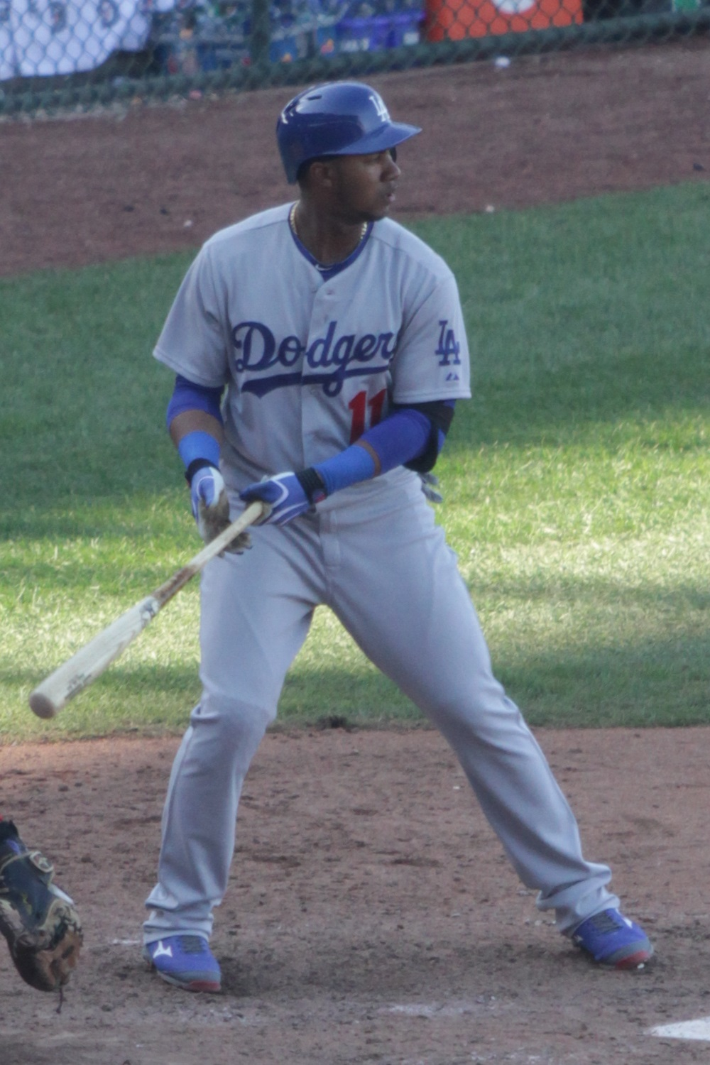 Erisbel Arruebarrena for the 2014 Los Angeles Dodgers against the 2014 Chicago Cubs at Wrigley Field.